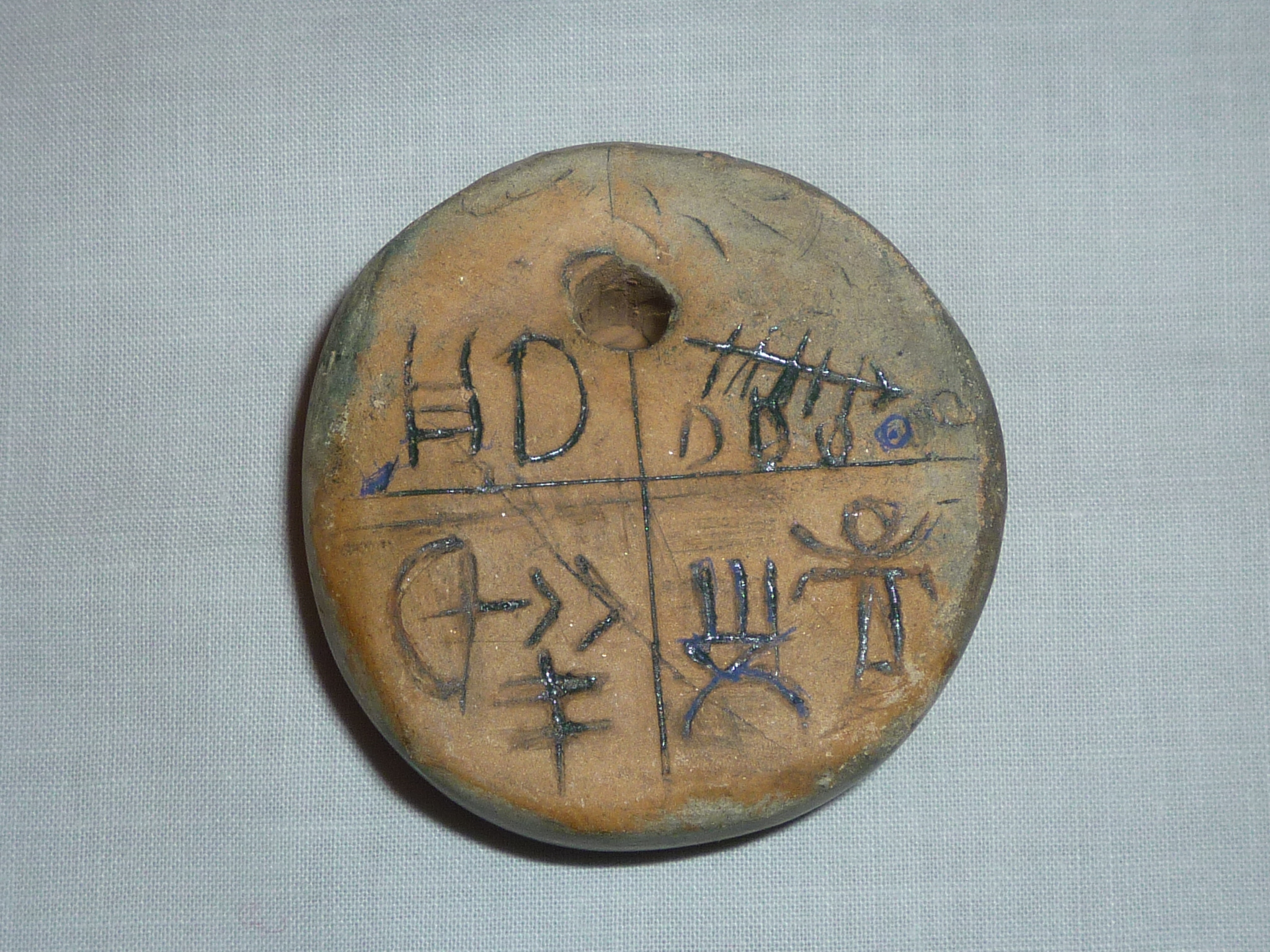 Tatárlaka round